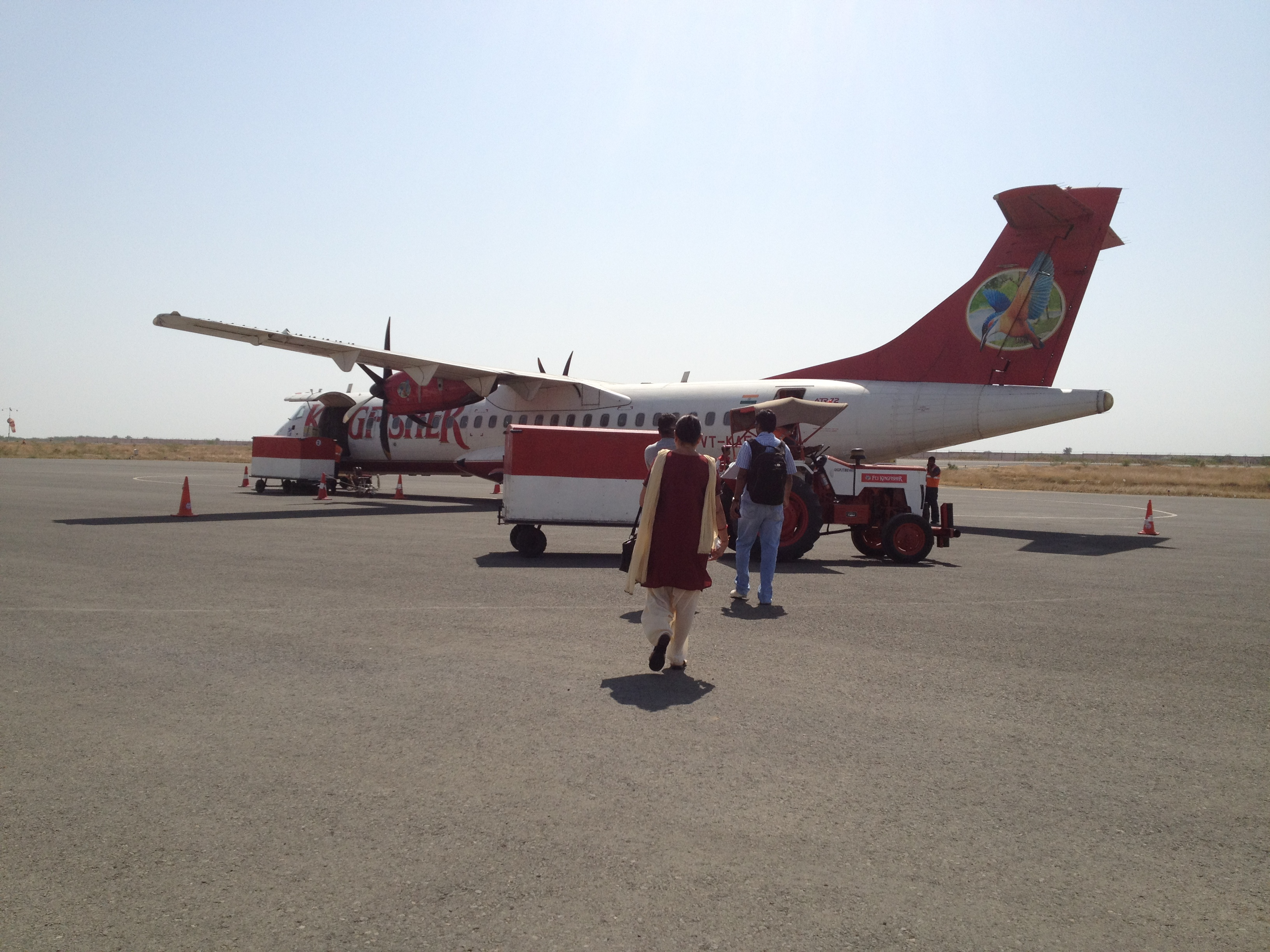 Kingfisher Airlines ATR- 72 aircraft at Bhavnagar Airport